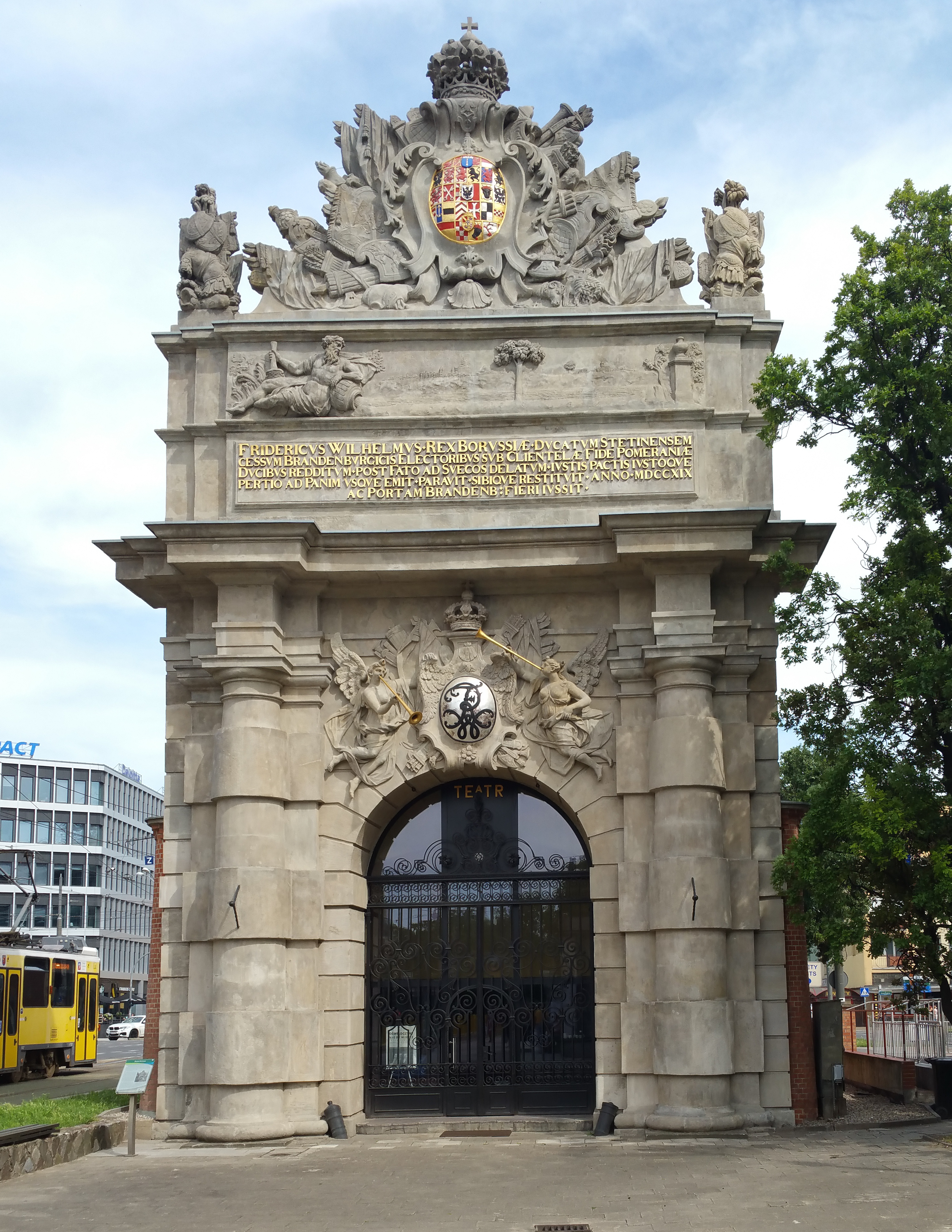 The Berliner Tor in central Szczecin, Poland was built in 1725 by Friedrich Wilhelm I of Prussia to mark his acquisition of the city from the Swedes in 1719. It was designed by the French sculptor Barthelémy Damart. The Latin inscription on the gate records that he bought the city with a legal contract and for a fair price. It now serves as a theater entrance.